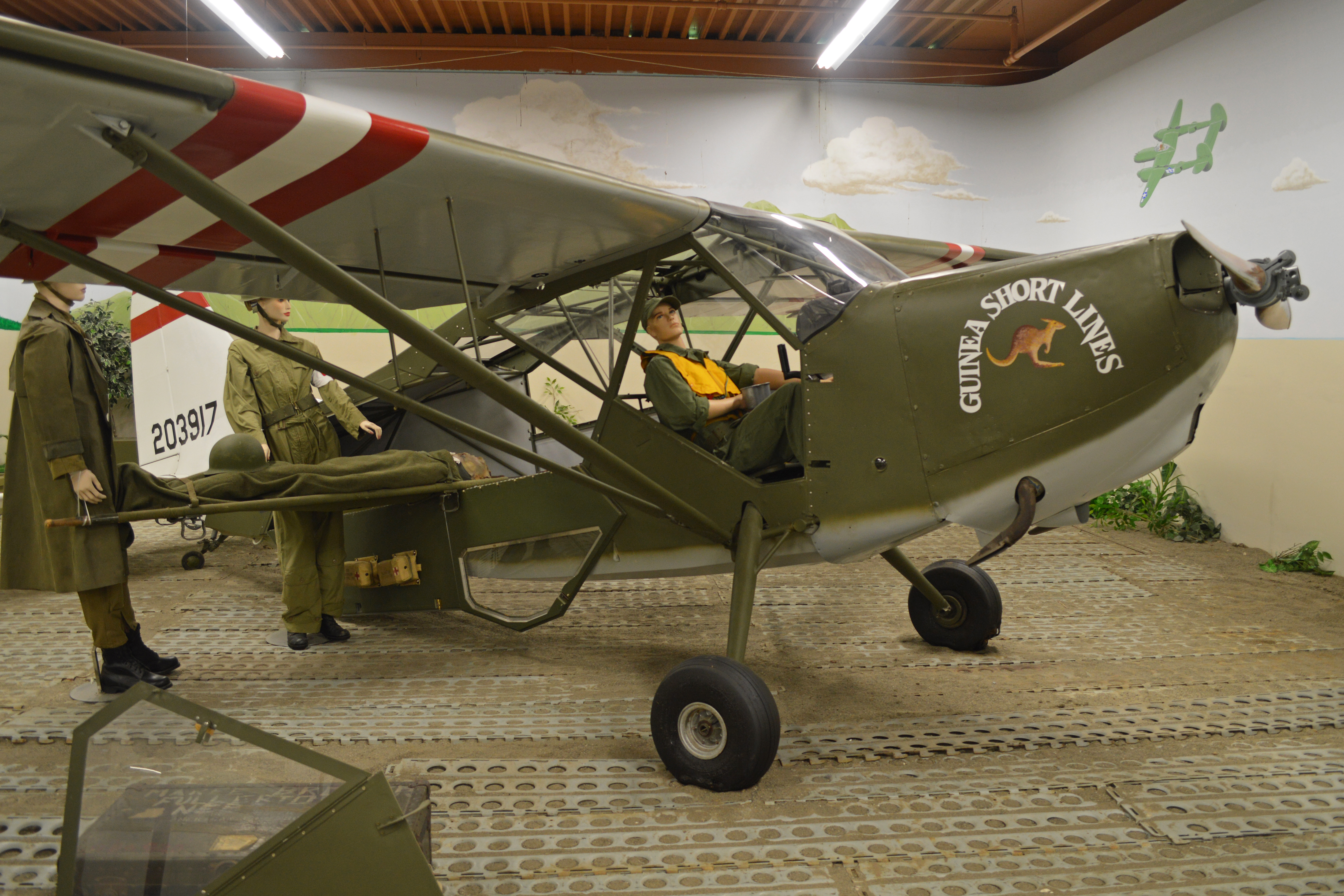 c/n unknown. Actually an ex-US Marines OY-1 with the Bureau No 03917, but painted to represent an Army L-5B with the tail no ‘203917’. The Sentinel Owners and Pilots Association (SOPA) database lists this machine as also having the US Army serial 44-17494. On display in the Travis AFB Heritage Center, CA. 5th March 2016